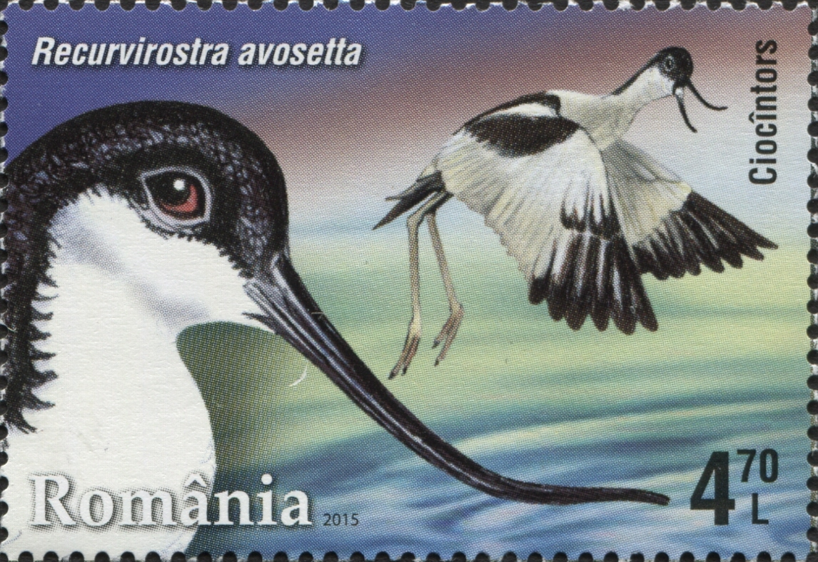 Stamps of Romania, 2015